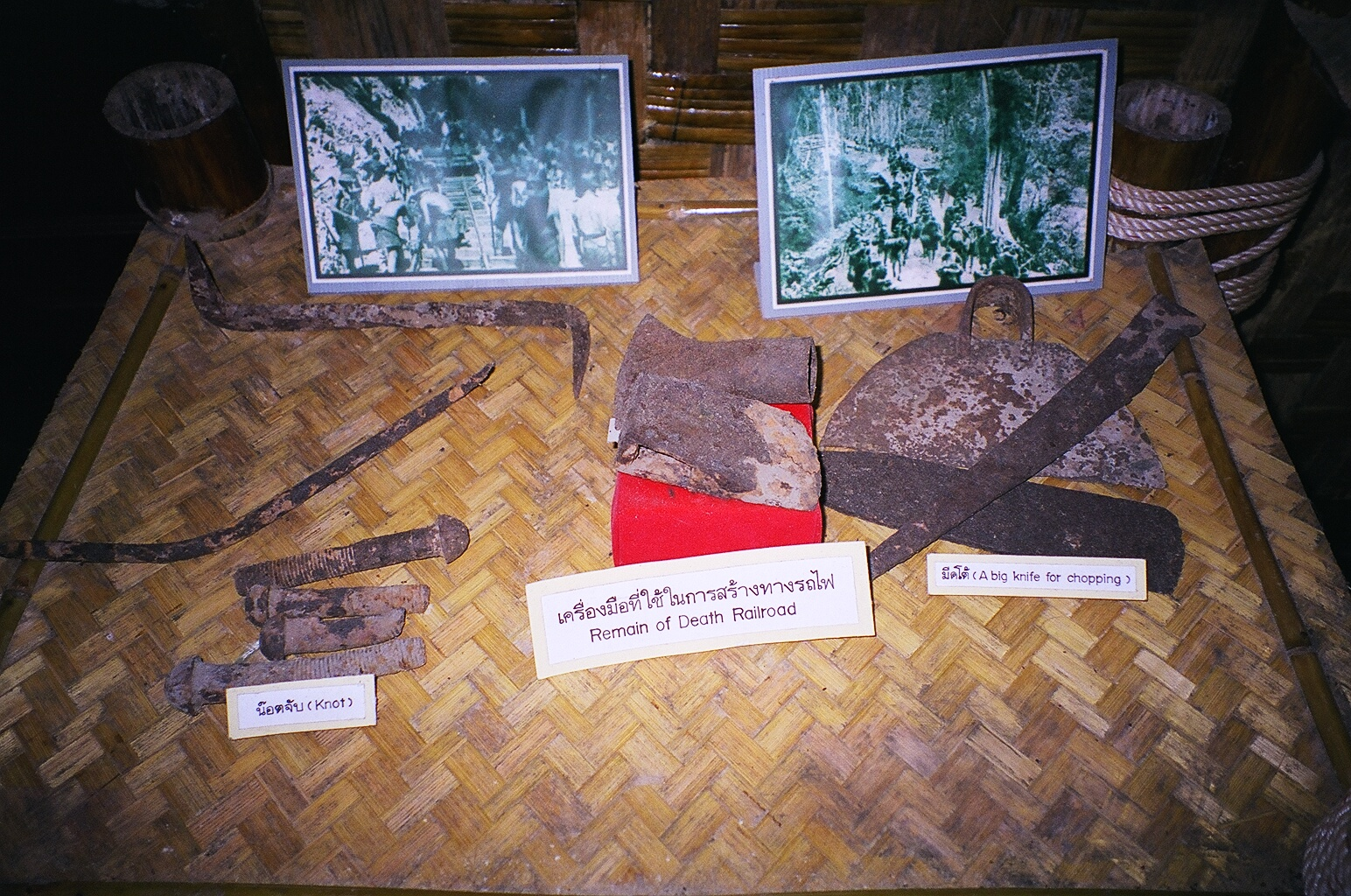 The tools utilized in construction of Death Railway, found in the area of Sai Yok National Park, Kanchanaburi, Thailand